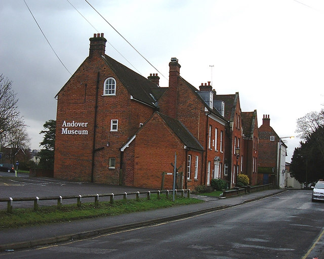 Andover - Andover Museum of the Iron Age As well as being a museum of the Iron Age relics found in the area it also tells the story of Andover and its environs.